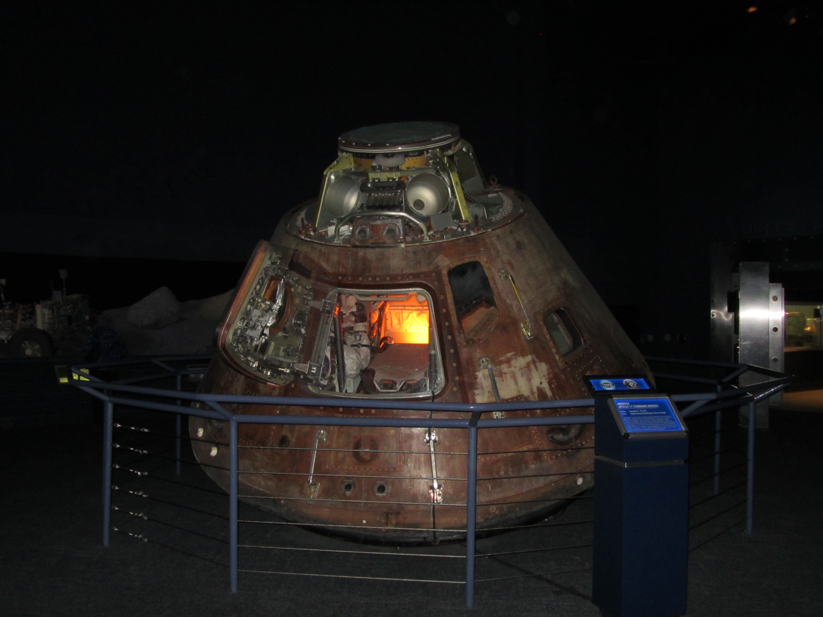 CSM-114 Apollo 17 America, Space Center Houston, Houston, TX